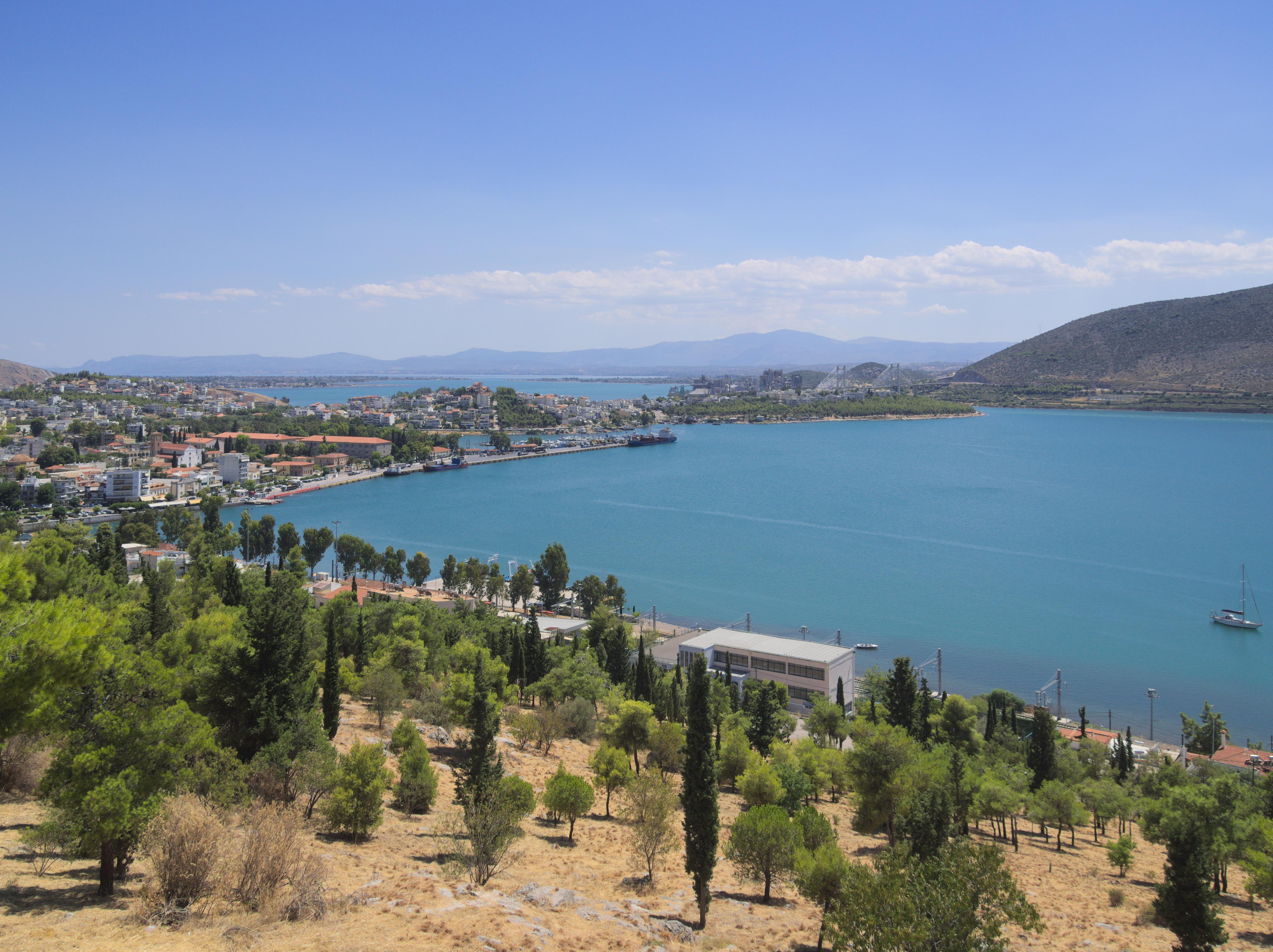 View of Chalkida and Evripos narrow from Karababas castle.